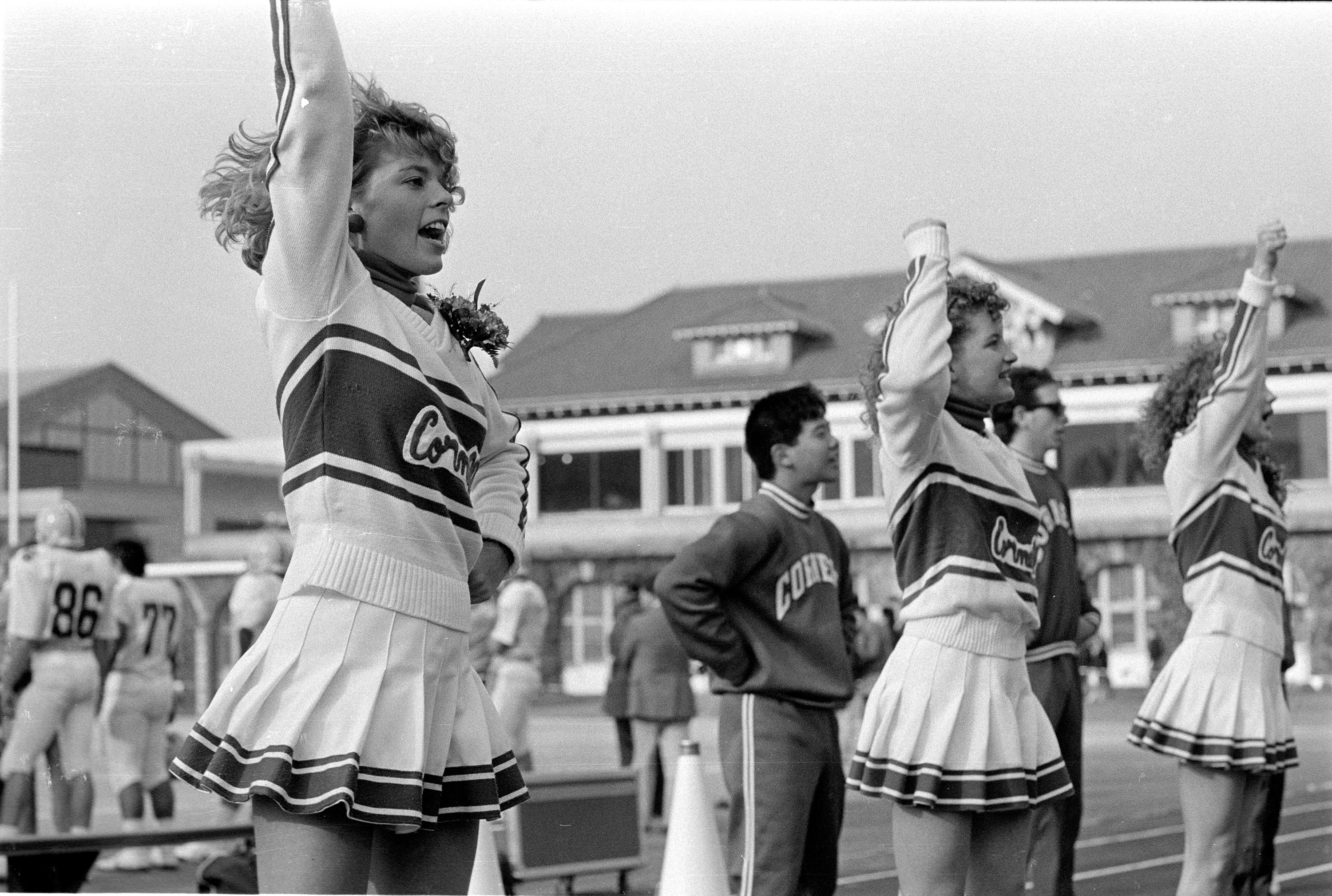 Probably taken Homecoming 1987.